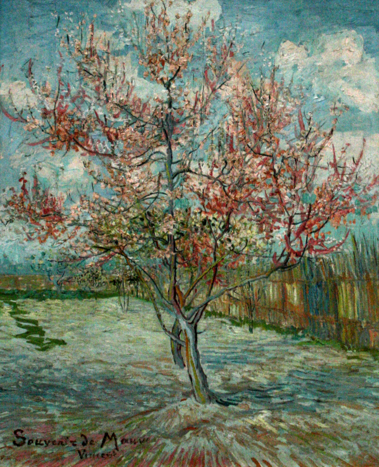 Van Gogh - Pink peach trees - Souvenir de Mauve (73.0 x 59.5 cm)